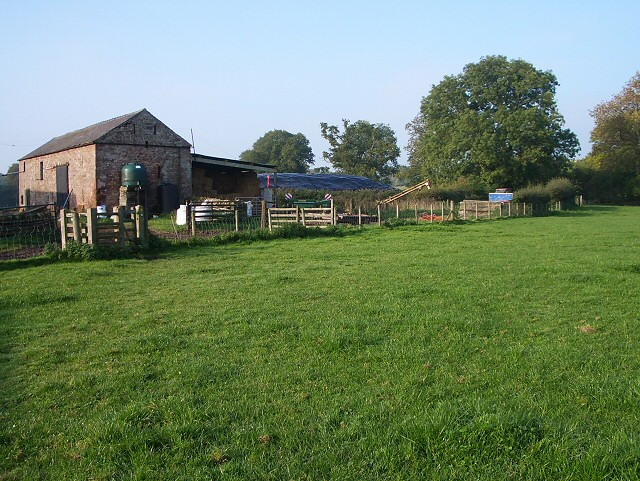 Cambeckhill The Hadrian's Wall path runs between farm buildings as it leaves the field.